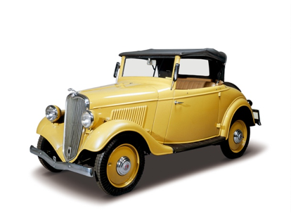 Datsun Roadster 14